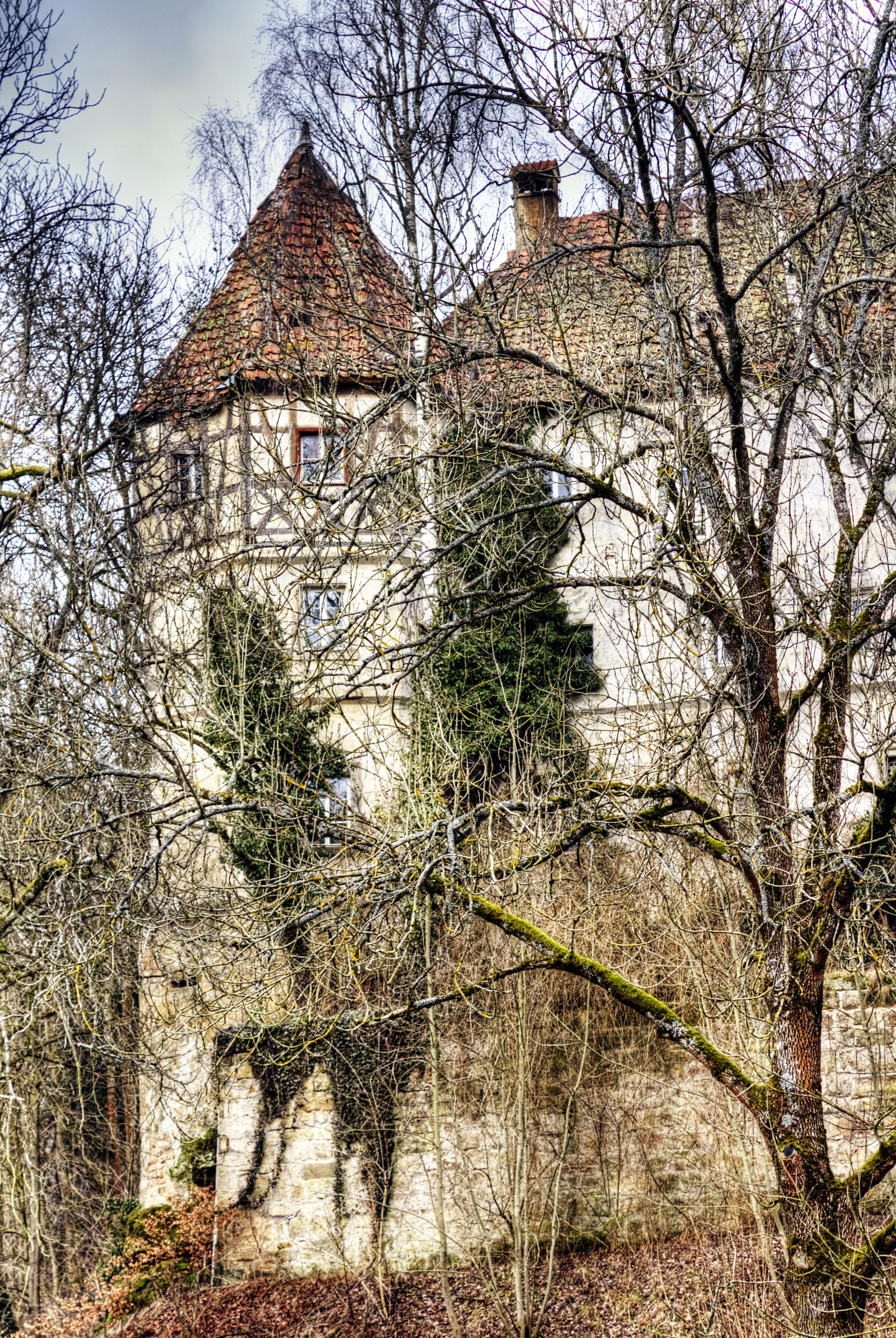 HDR-Image of south-western tower of "Schloss Wildenroth" (Burgkunstadt, Bavaria)